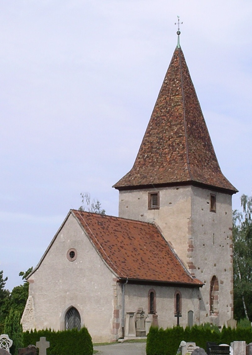 Chapel St. Margarethe within the cemetery near Muggensturm